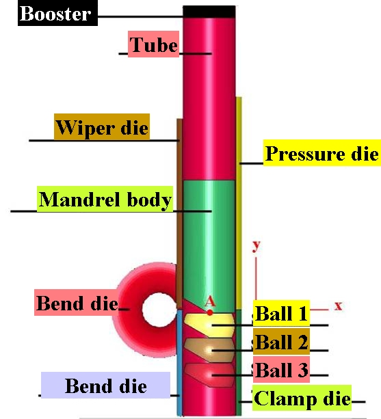 the complete tool set for a difficult rotary draw bending operation